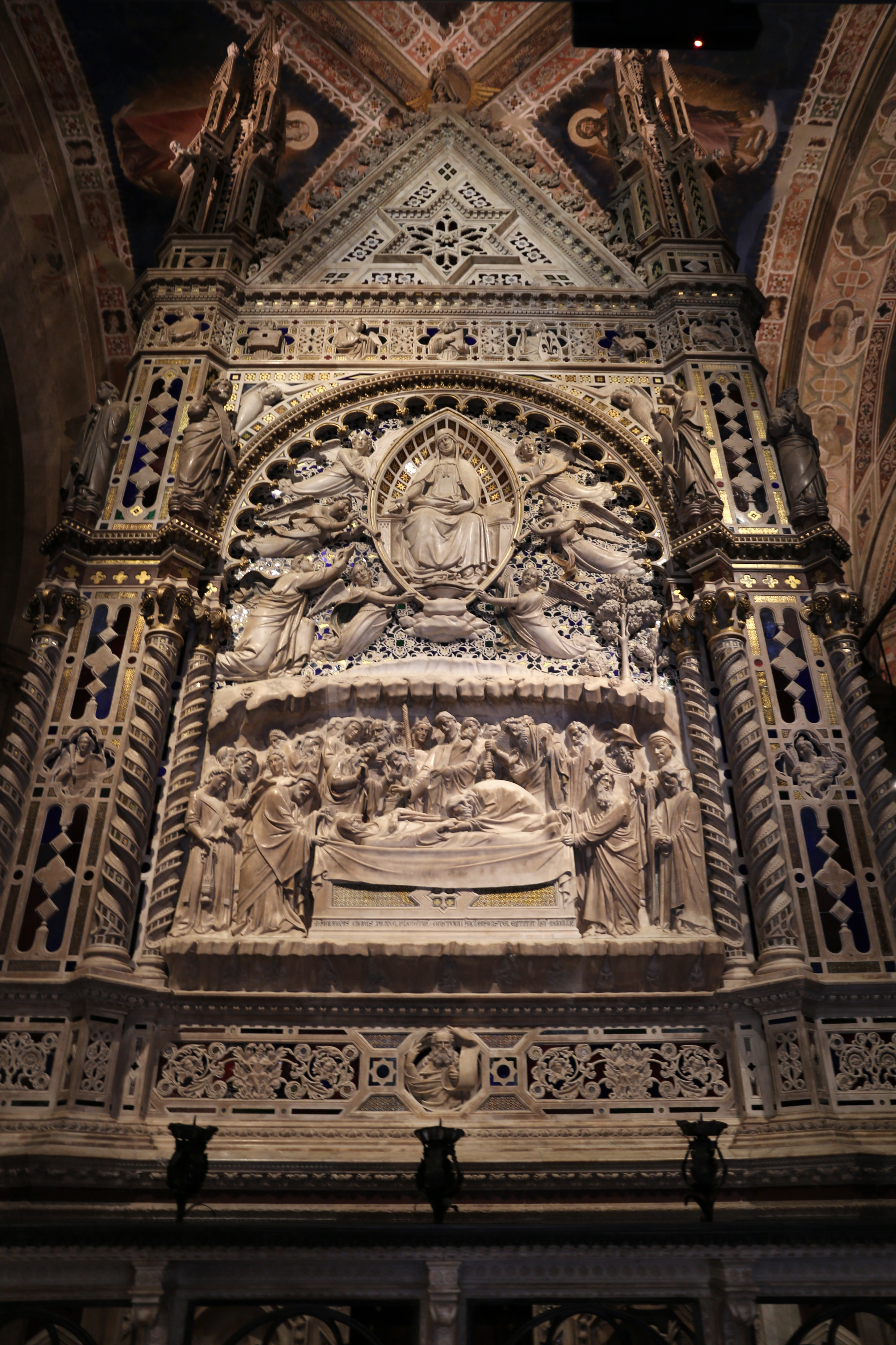 Orsanmichele's tabernacle